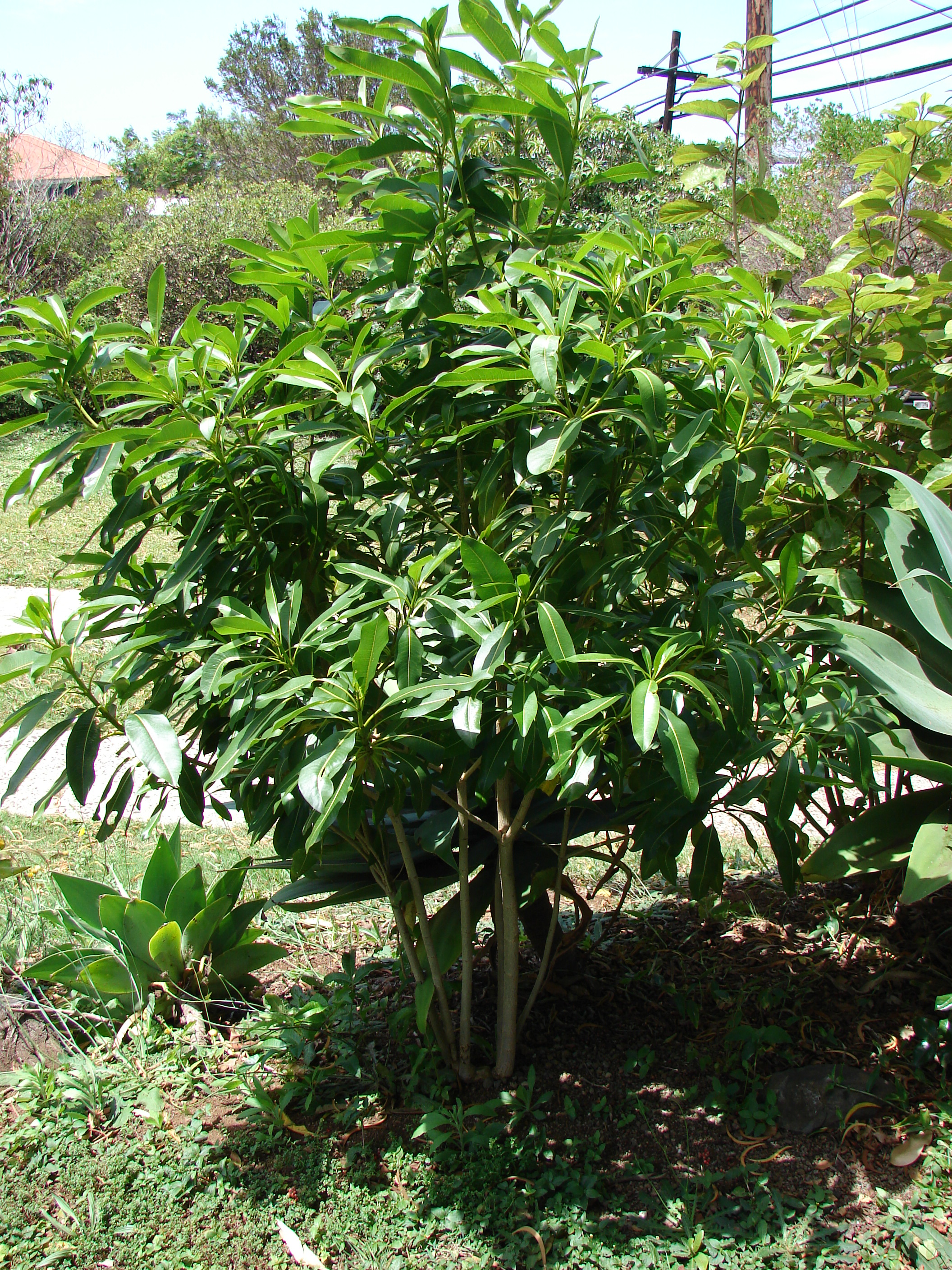 Rauvolfia sandwicensis (habit). Location: Maui, Makawao